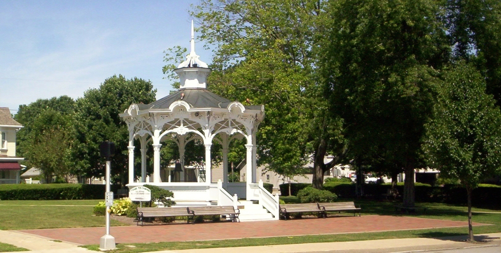 National Register of Historic Places Bellville Bandstand at North Bellville Municipal Park at the corner of Main Street and Church Street in Bellville, Ohio, United States.